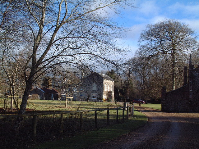 Bindon Abbey House. The house in this photograph was built by Thomas Weld in the eighteenth century on the site of a former Cistercian Abbey built in 1172. Thomas Weld owned Lulworth Castle so this very much smaller house was by way of a retreat. An upper room served as a Roman Catholic chapel until a modern church was built in the 1970's in Wool. Also linked with the Bindon Abbey ruins are some of the fictional events that occur in Thomas Hardy's "Tess of the D'Urbervilles".